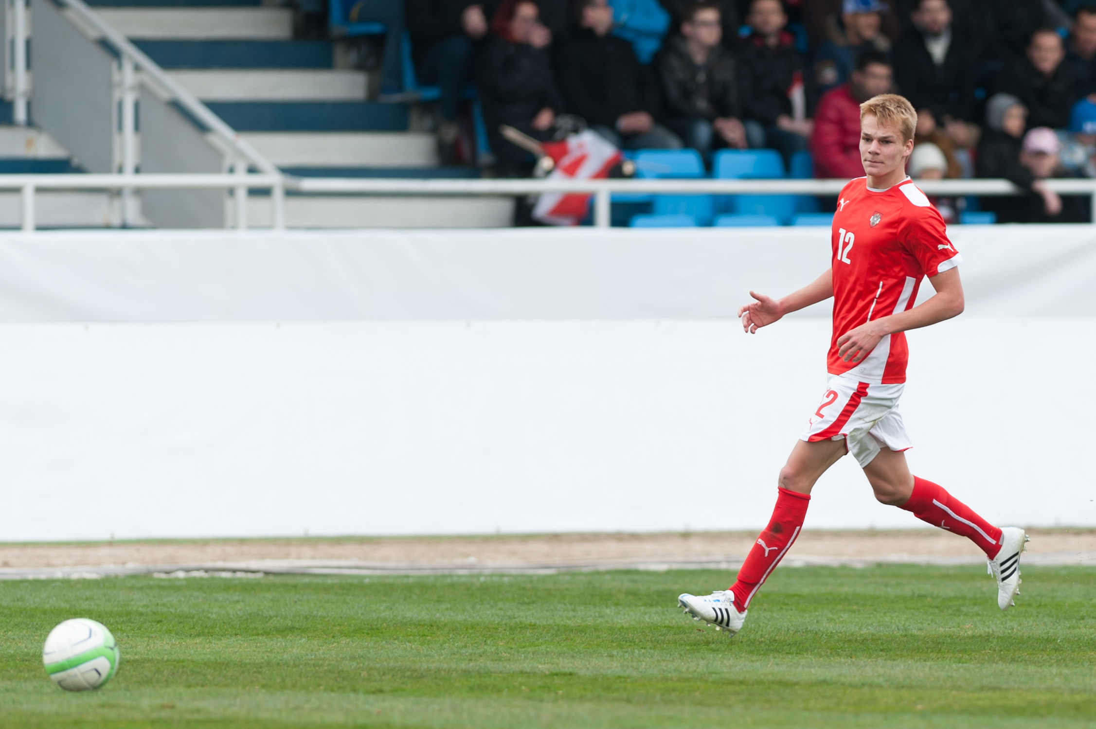 European Under-19 Championships 2015 Elite Round, Austria vs. Croatia, 28/03/2015 Wiener Neustadt, Lower Austria